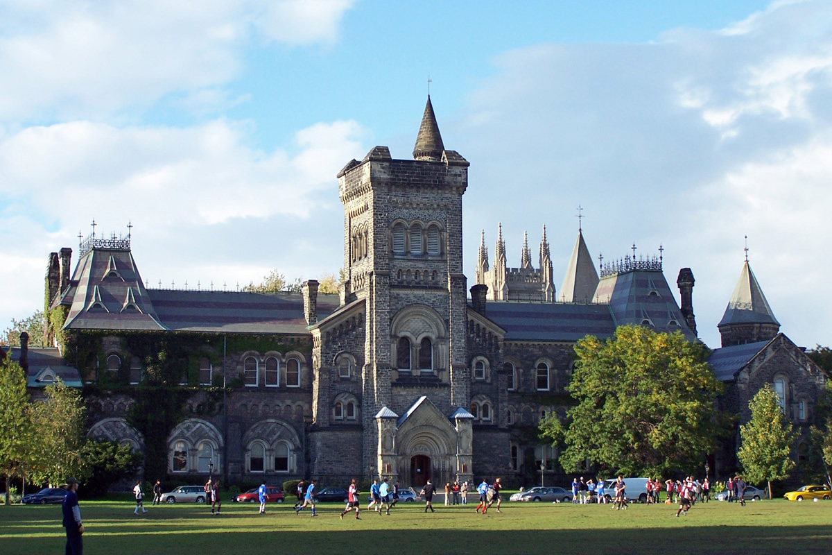 University College, south side, University of Toronto